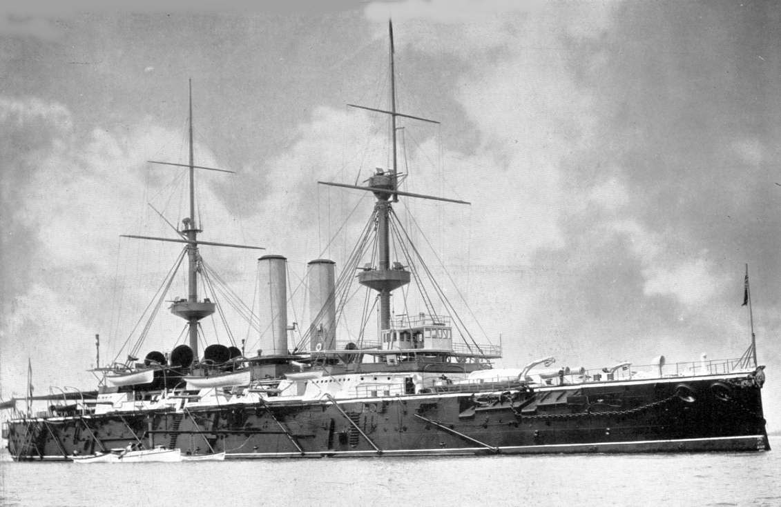 British battleship HMS Royal Sovereign (1891).